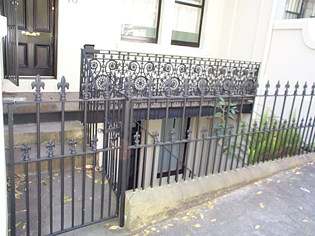 English Styled terrace basement, Paddington, New South Wales.